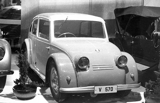 Tatra V570 second prototype 1933